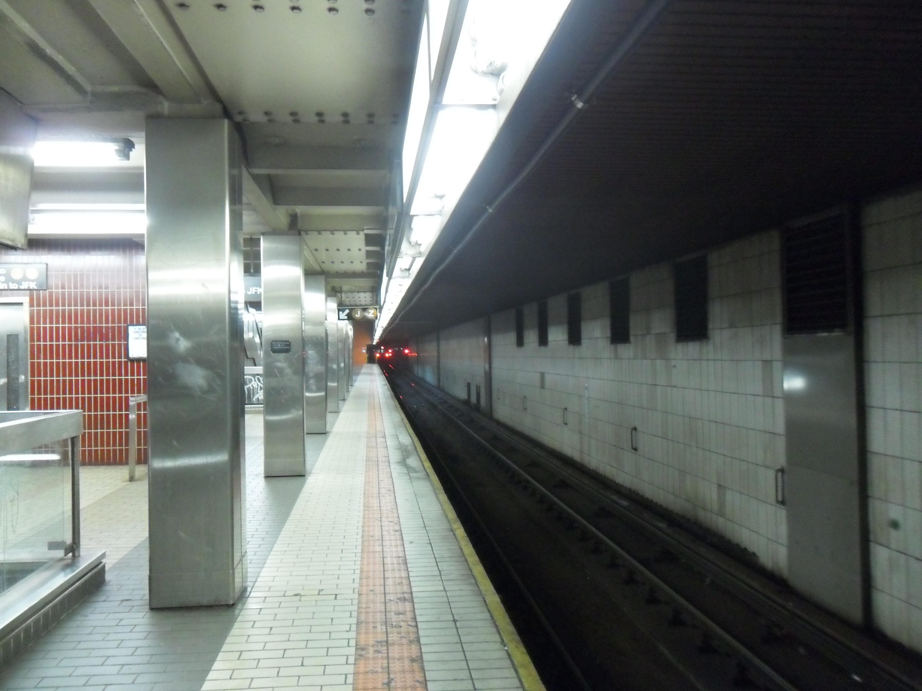 subway platform